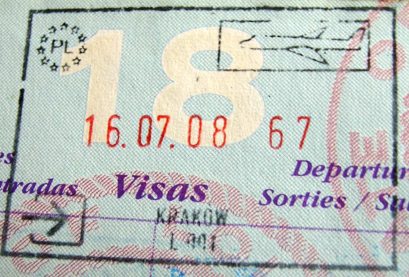 Polish passport stamp from Krakow airport.